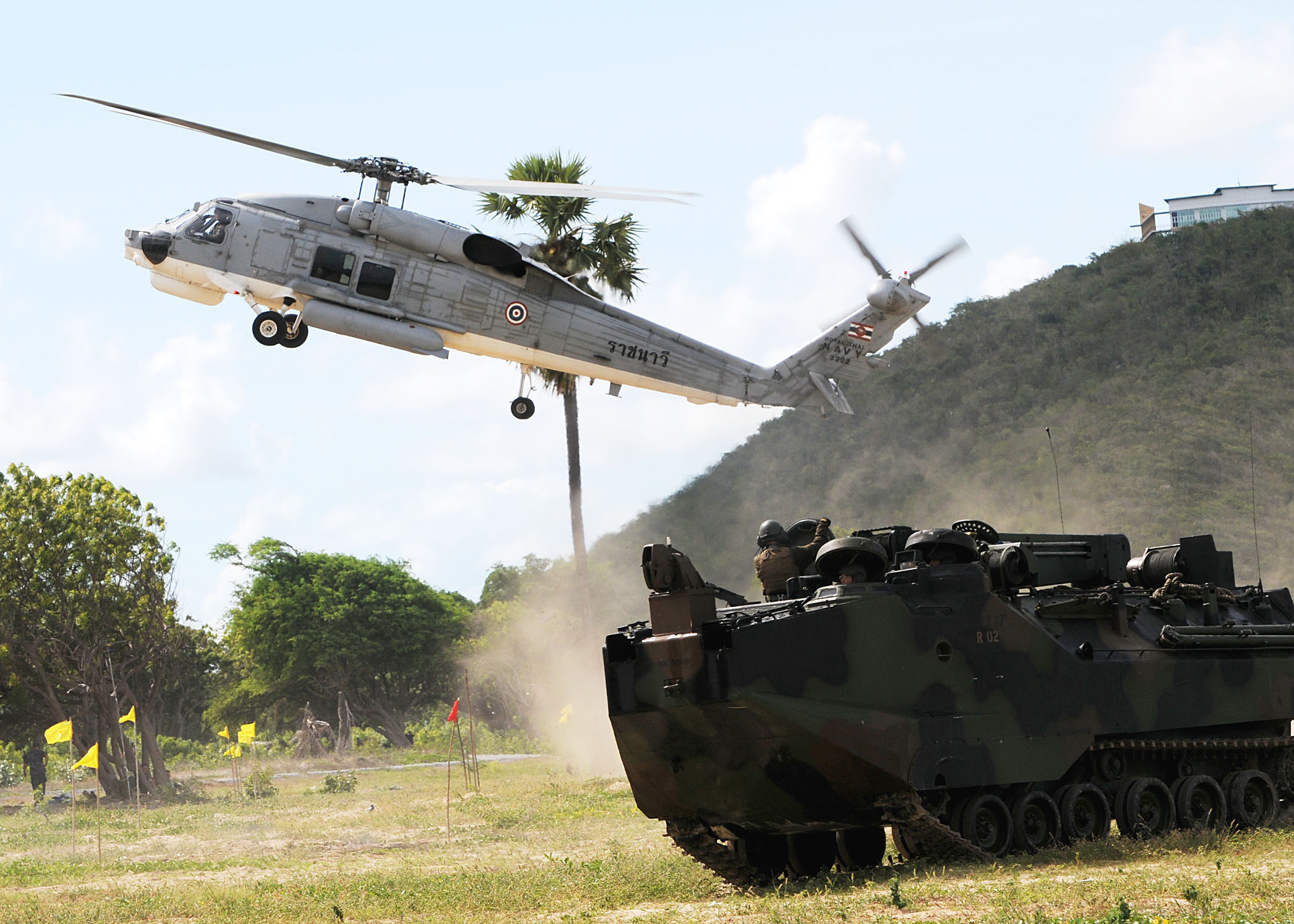 HAD YAO BEACH, Thailand (May 20, 2010) A Royal Thai Navy helicopter prepares to insert Royal Thai marines on the beach as a U.S. Marine Corps amphibious assault vehicle advances to its objective during a combined beach landing. The beach landing was the premier event of Cooperation Afloat Readiness and Training (CARAT) Thailand 2010. Elements of the Royal Thai Navy, Air Force and Marines as well as U.S. Navy and Marines took part in the landing. CARAT is a series of bilateral exercises held annually in Southeast Asia to strengthen relationships and enhance force readiness. (U.S. Navy photo by Chief Mass Communication Specialist Michael Ard/Released)